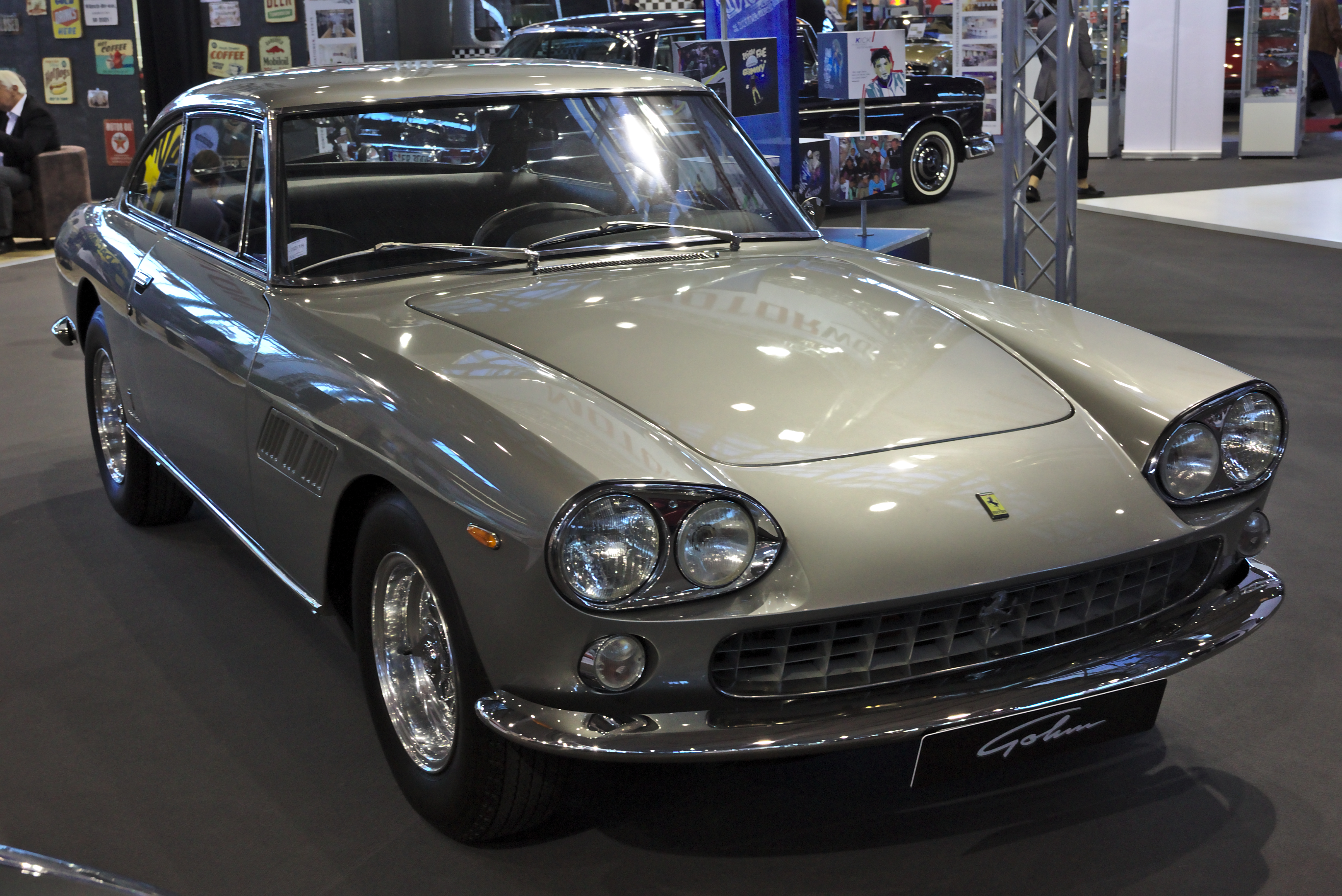 Ferrari 330GT Four Headlight Series I at Retro Classics 2019